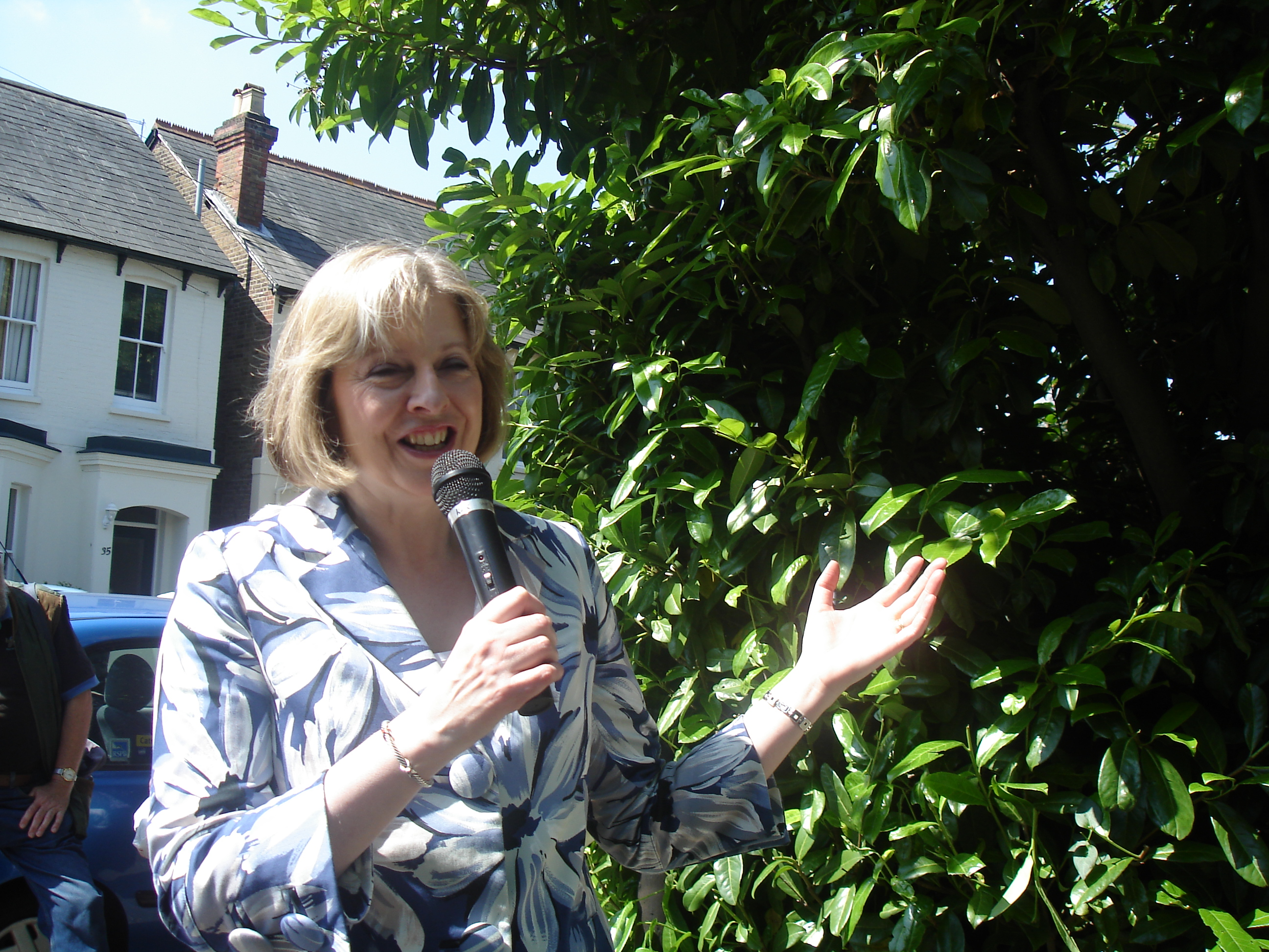 Photo of Theresa May, opening a church fete in 2007